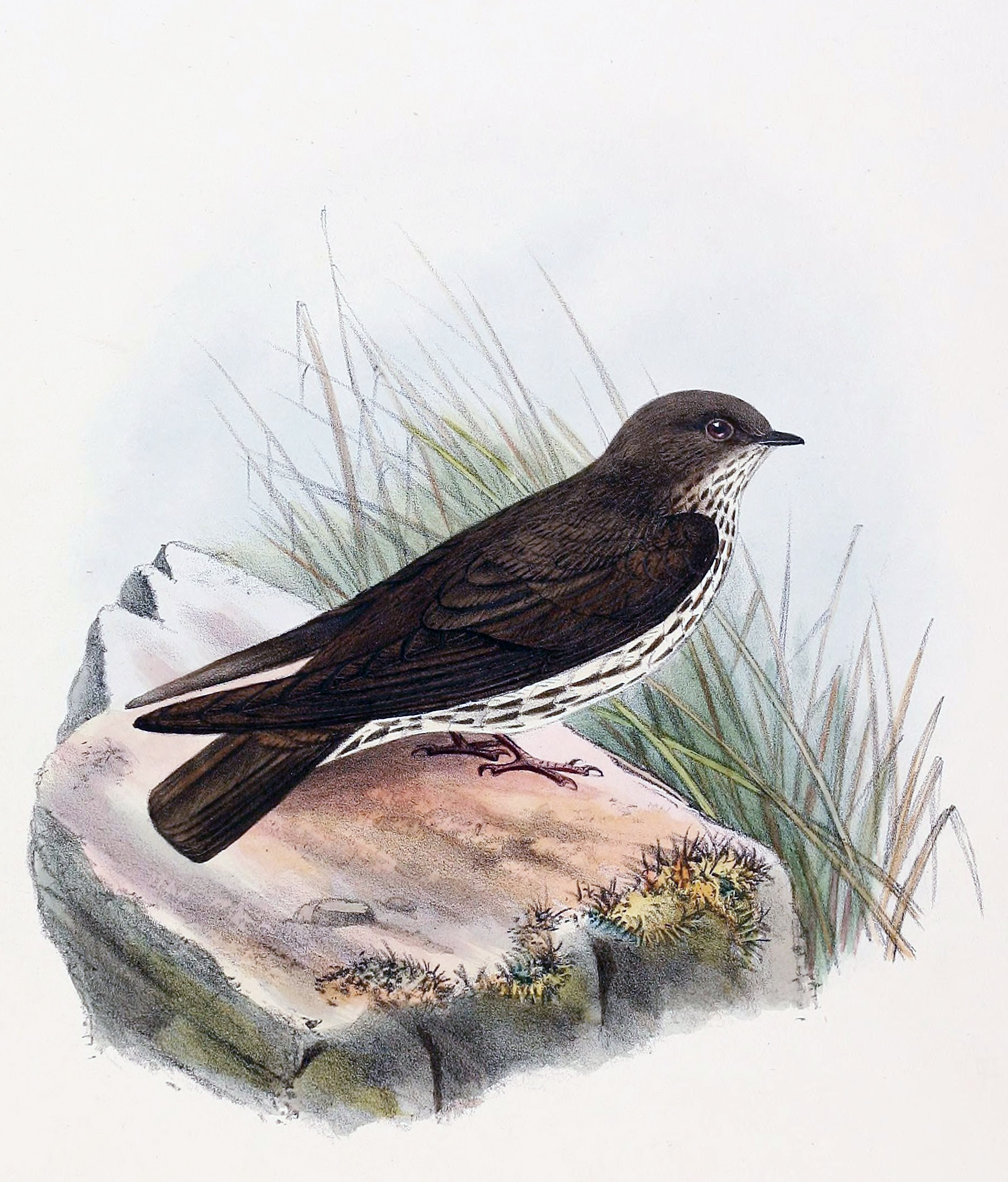 « Phedina brazzae » = Phedina brazzae (Brazza's Martin)